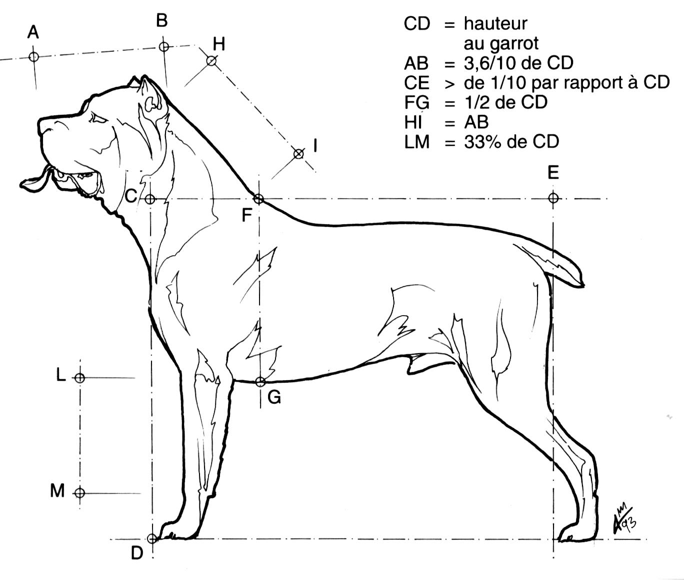 Proportions